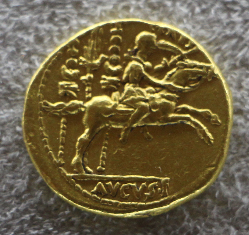 Ancient Roman coins in the Museo archeologico nazionale (Florence)